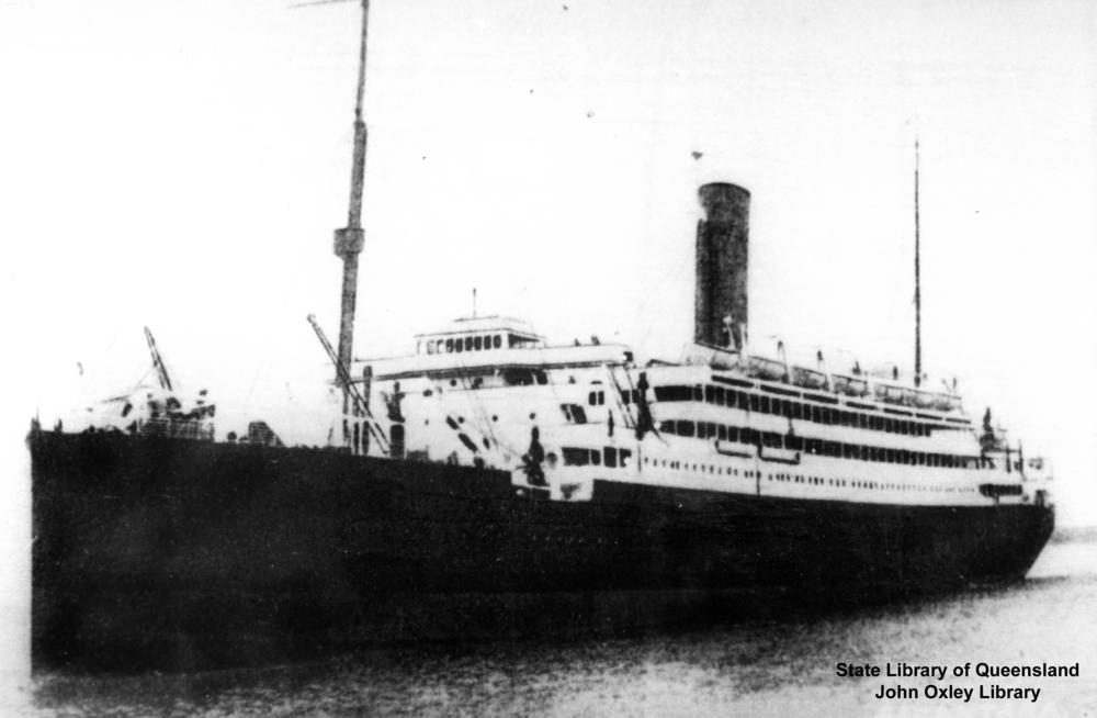 Alcantara (ship) 15,831 tons. Royal Mail Steam Packet Company. On 29 February 1916, as an armed merchantman engaged the German Raider 'Grief' in the North Sea. Both the 'Alcantara' and the 'Grief' sank. (Description supplied with photograph).